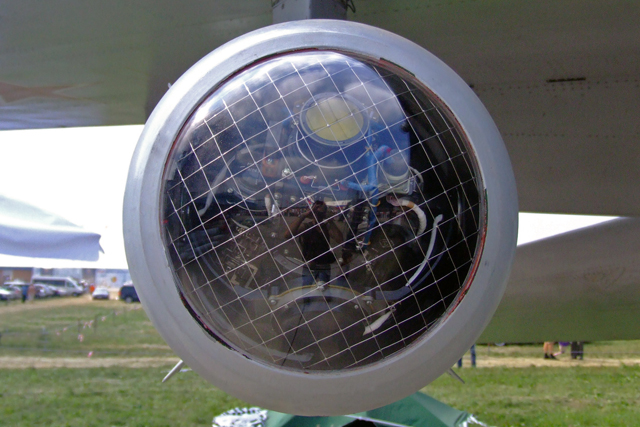 MAKS Airshow-2007. Missile.